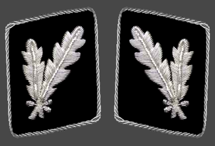 Rang insignia of the SS/Waffen-SS, here universal collar patches for officer rank “SS-Oberfuehrer”.